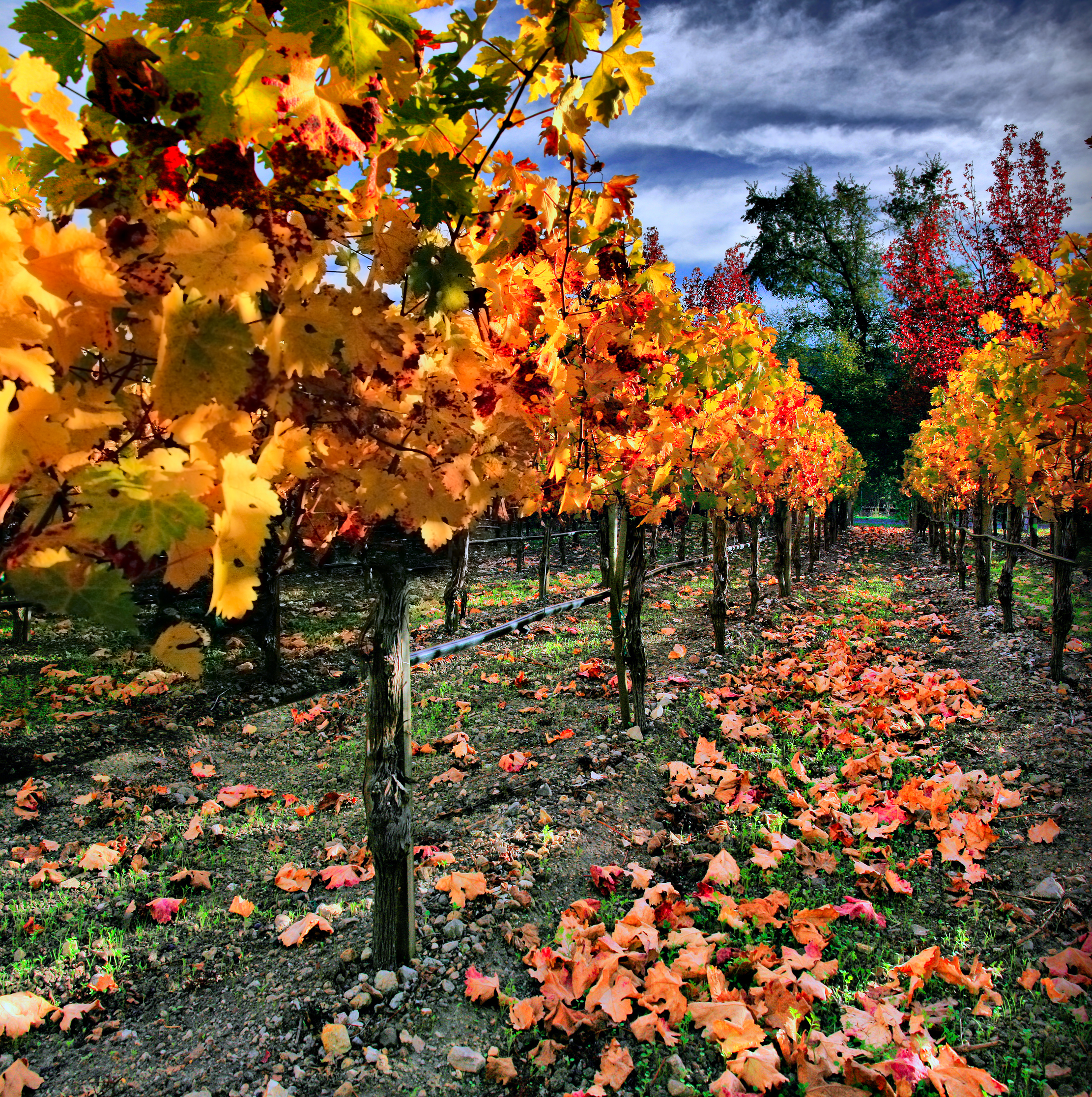 Vineyard in Napa Valley